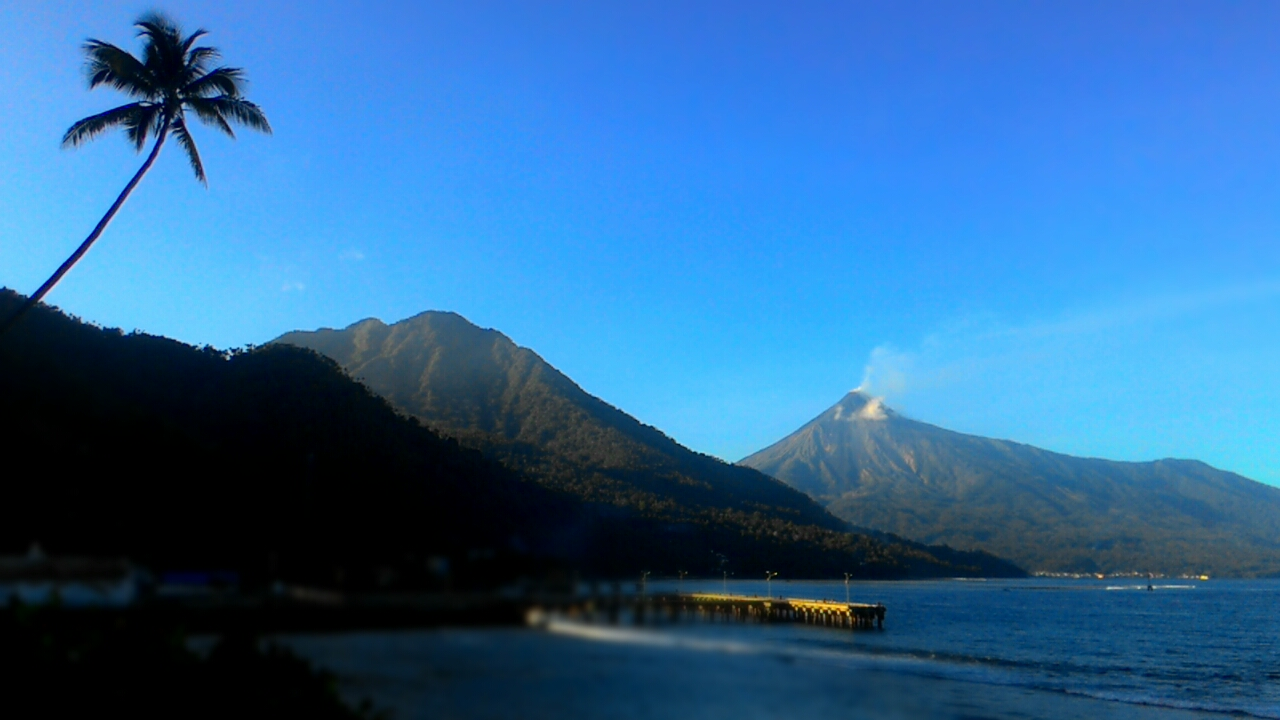 Mount Tamata & Mount Karangetang have height 1111 & 1827.Foto is take at Sawang Pondole. Kec.Siau Timur Sealatan. Kab. Siau Tagulandang Biaro. North Sulawesi.